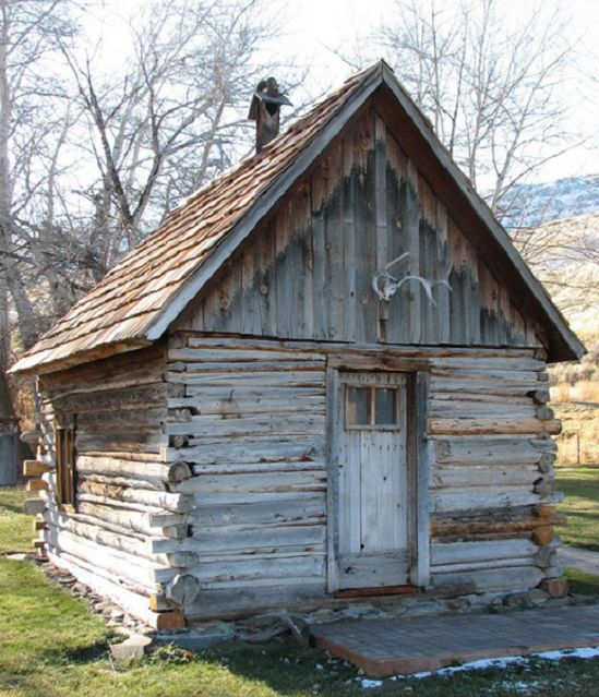 Log cabin built in the 1890s by Floyd Officer; located in the James Cant Ranch Historic District within the John Day Fossil Beds National Monument near Dayville, Oregon